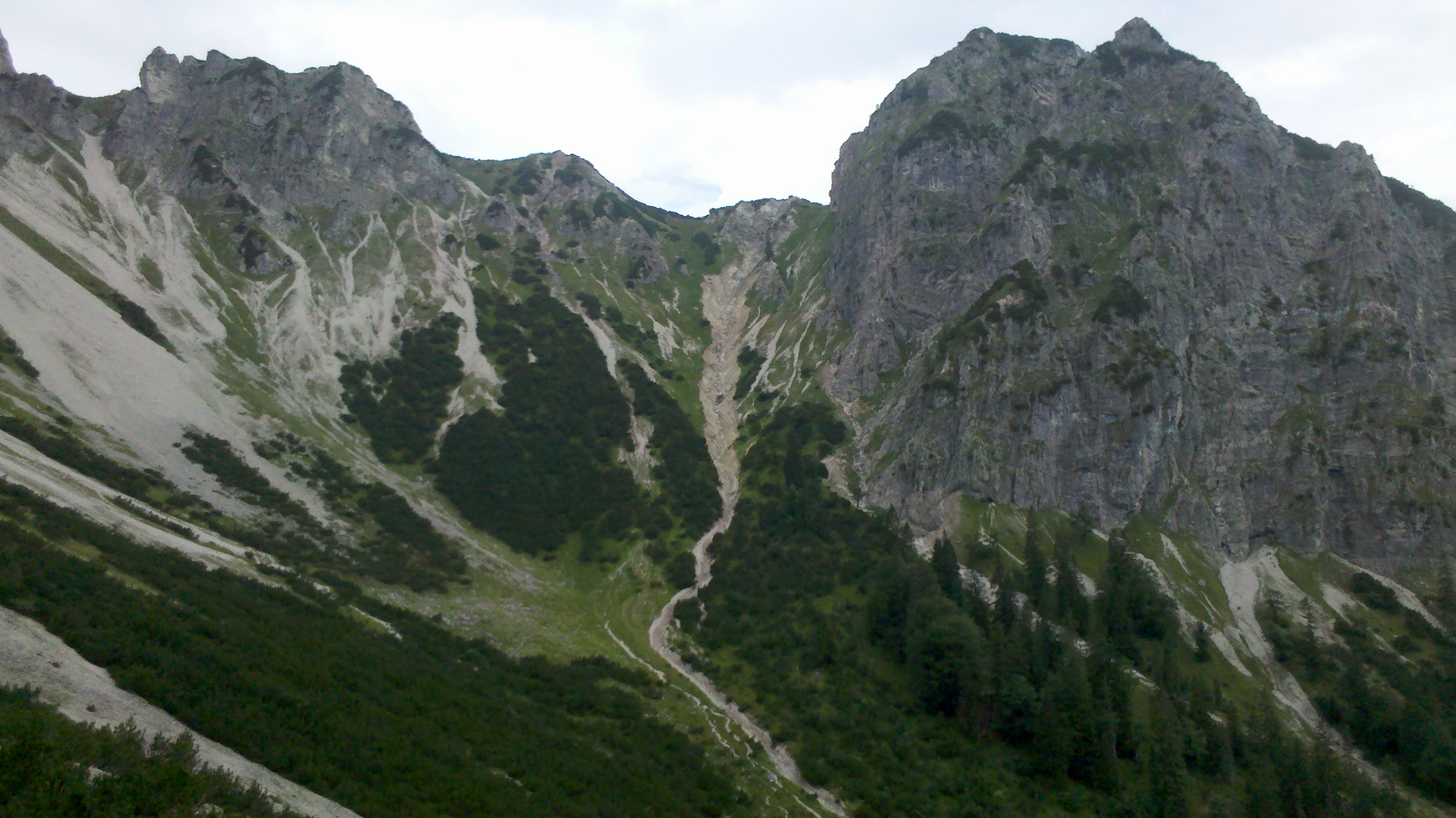 Rotkogel (1687 m) from Schinder cirque